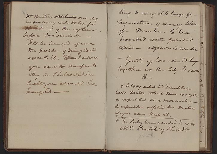 From the Library of Congress: "As the Constitutional Convention adjourned, “a woman [Mrs. Eliza Powell] asks Dr. Franklin well Doctor what we got a republic or a monarchy? A republic replied the Doctor if you can keep it.” Although this story recorded by James McHenry (1753–1816), a delegate from Maryland, is probably fictitious, people wondered just what kind of government was called for in the new constitution."